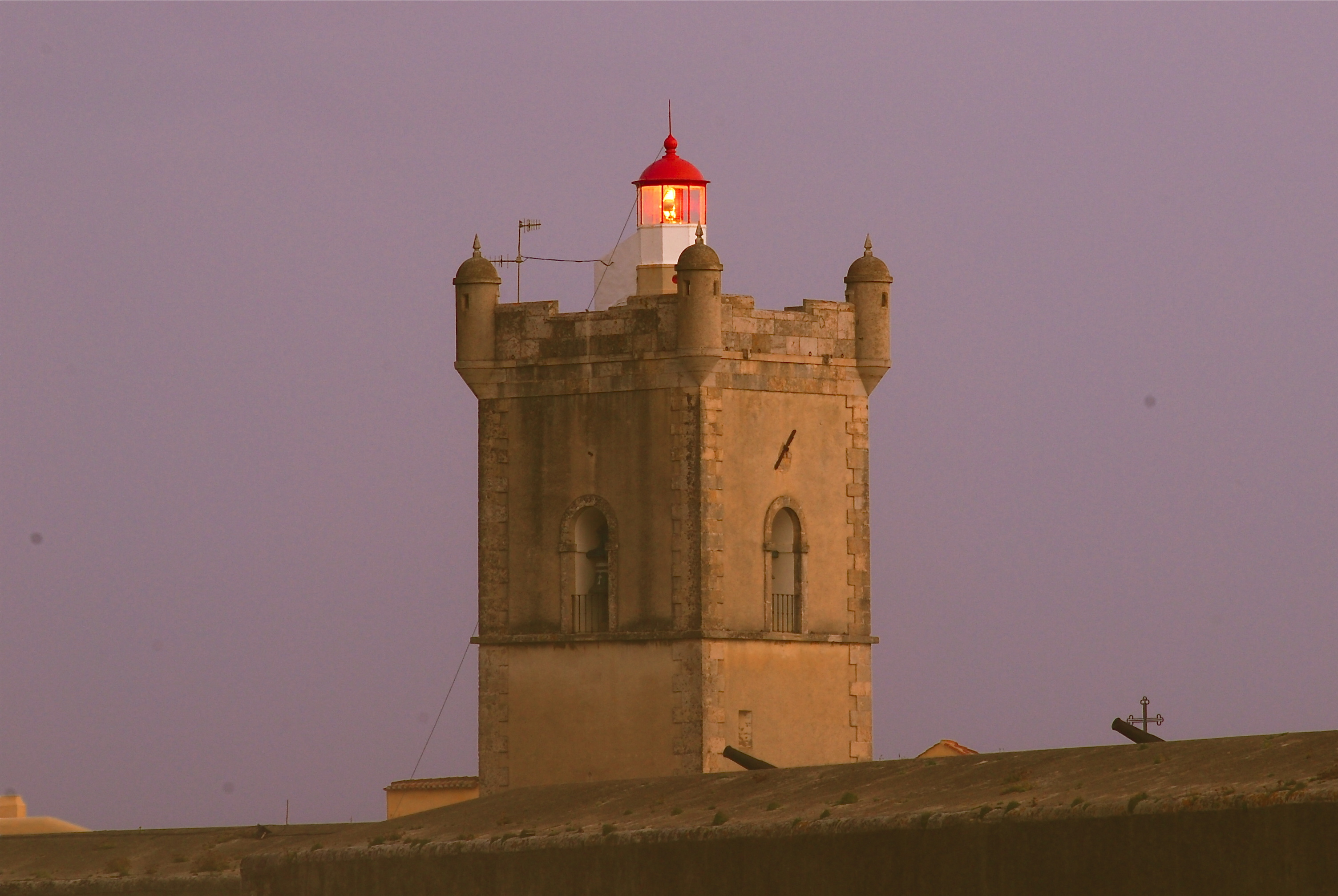 São Julião Lighthouse in São Julião da Barra Fortification, freguesia de Oeiras e São Julião da Barra, Oeiras municipality, Lisbon district, Portugal.